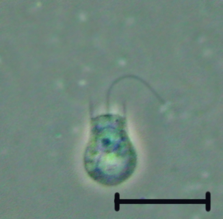 Codosiga sp. isolated from Siberian soil Codosiga sp cell at late stages of the life cycle